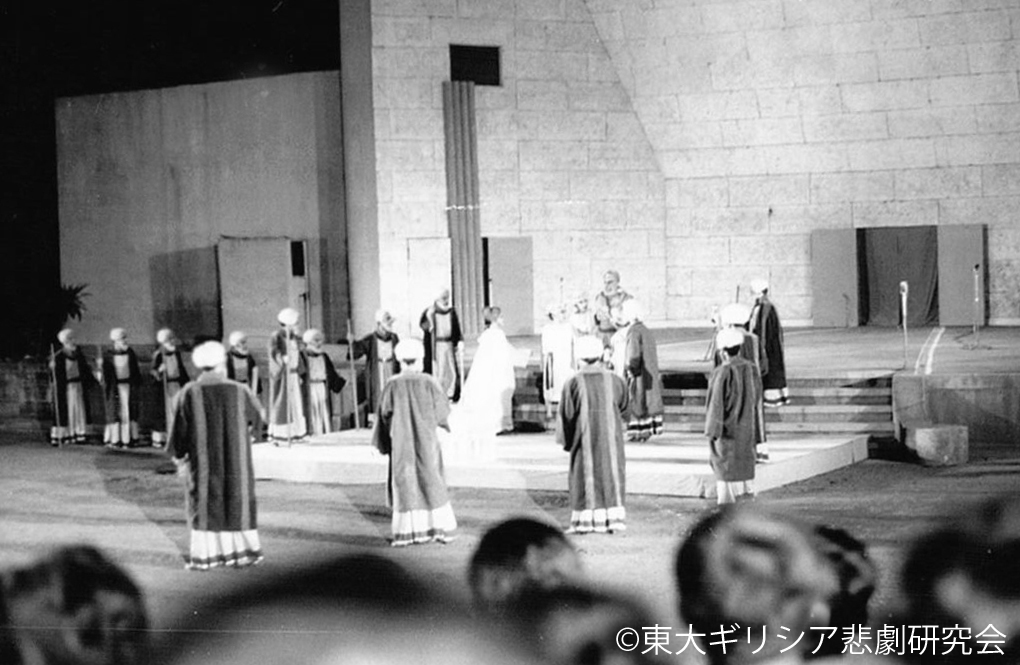 Greek tragedy 1964 Tokyo University Greek Tragedy Institute-c